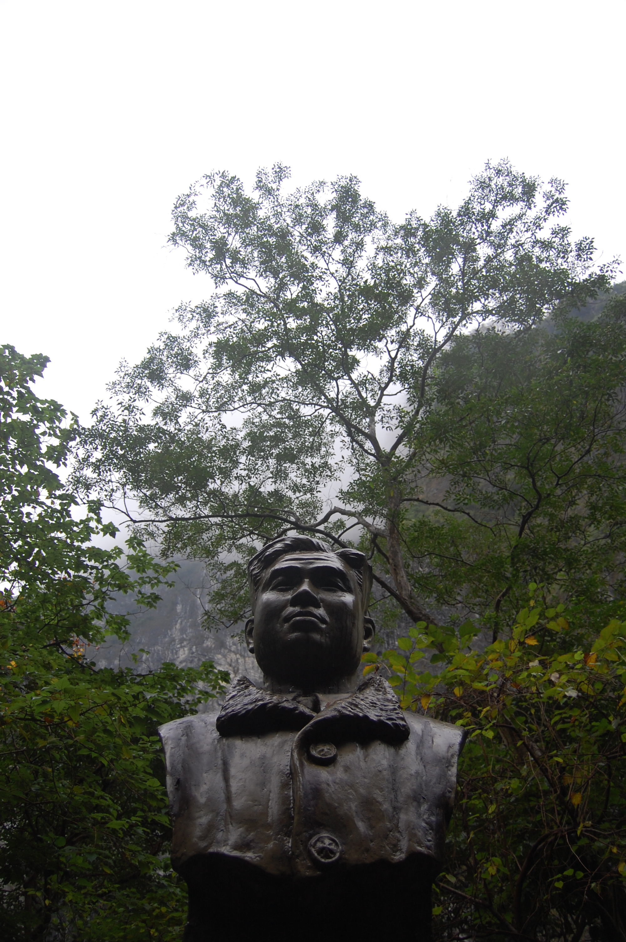 View From Swallow Grotto in Taroko National Park